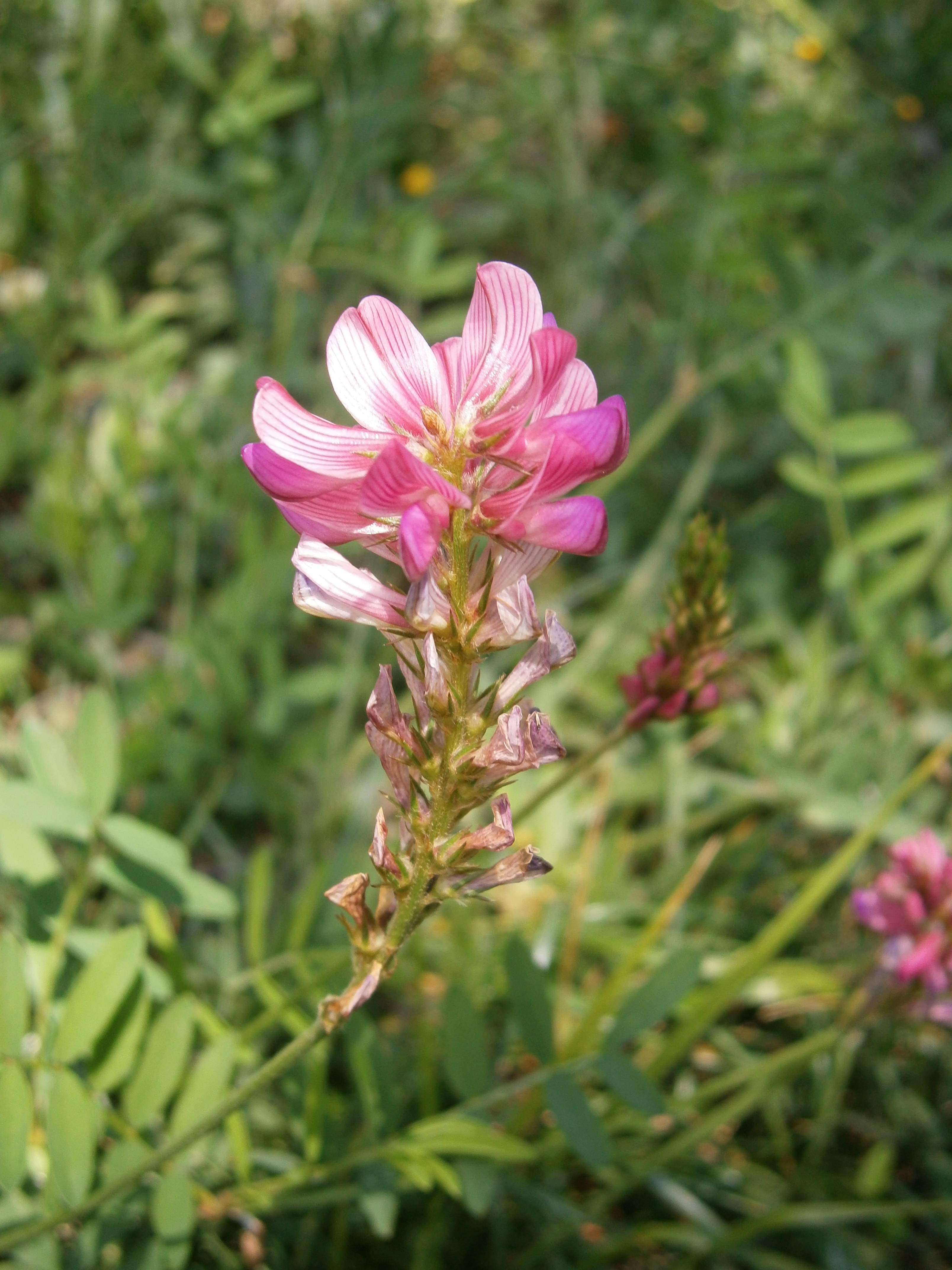 Onobrychis montana